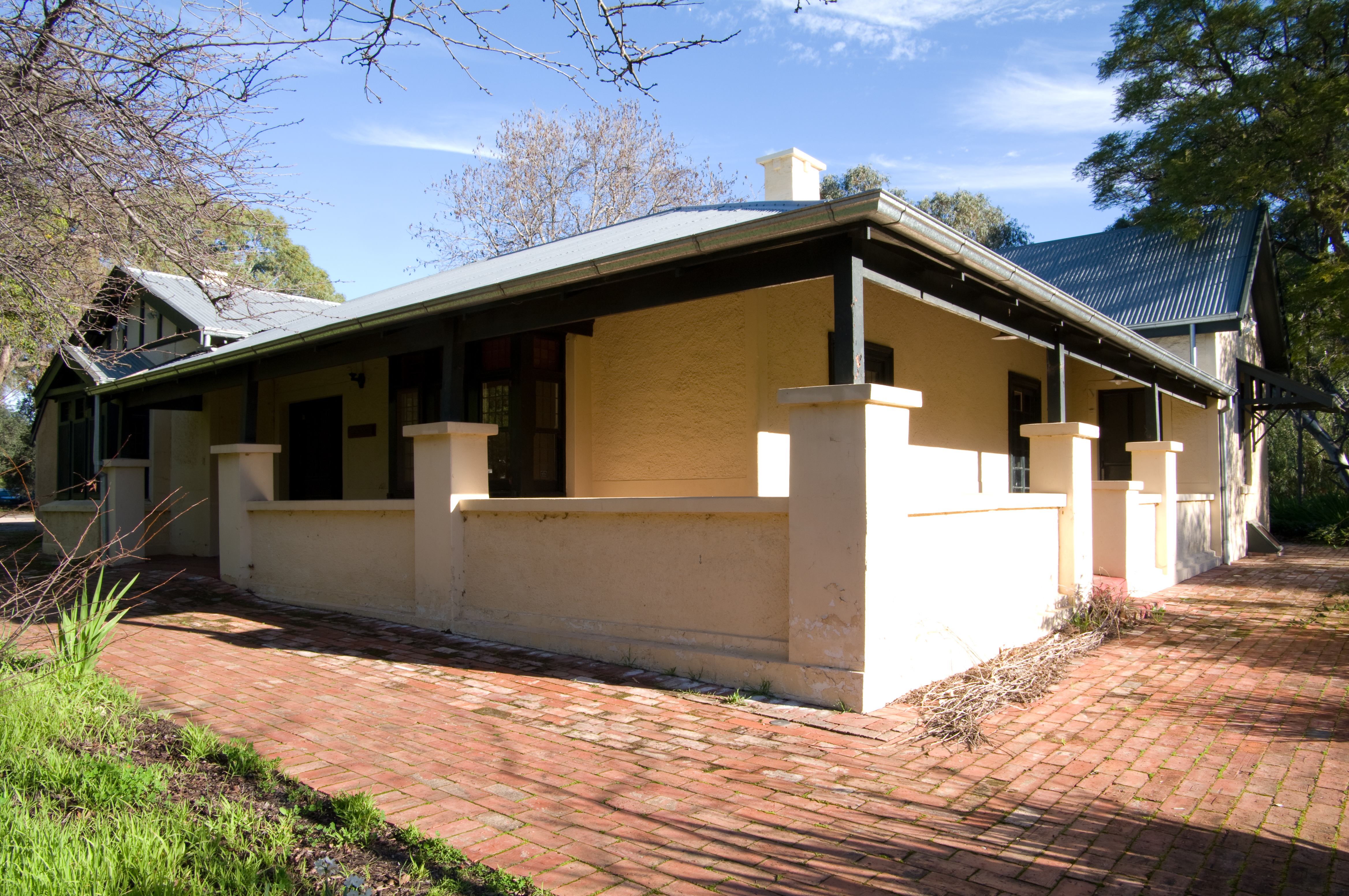 Fairford House in Warriparinga, South Australia. Possibly designed by noted colonial architect and Lord Mayor Edmund Wright, the property belonged to local agriculturalist and viticulturist William Henry Trimmer until his death in 1867. In 1876 the property was sold to Henry Laffer, and the Laffer family remained at the property (then known as Laffer's Triangle) for 112 years. Today it is heritage listed and belongs to the City of Marion, but is currently not being utilised.